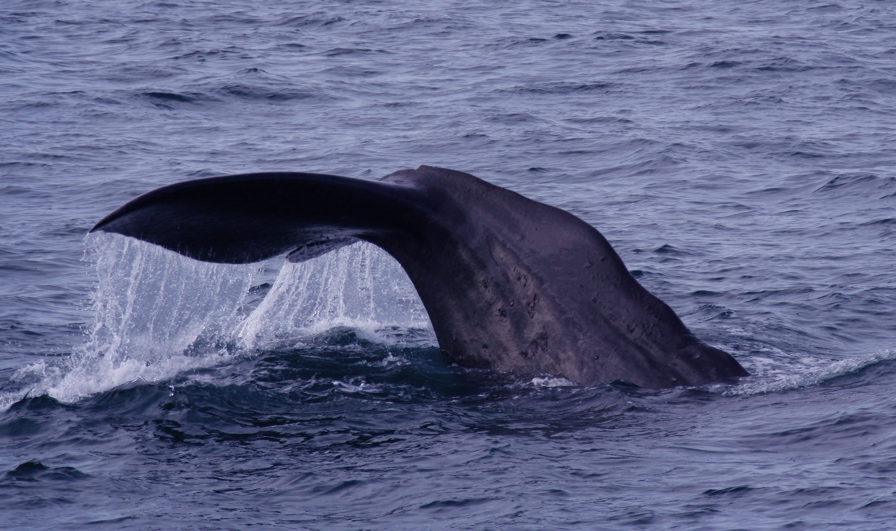 A sperm whale starting to dive in the Gulf of Alaska.